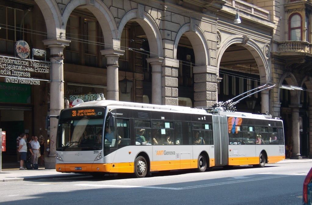 A Van Hool trolleybus in Genova, Italy, on Via XX Settembre in the city centre and headed for Sampierdarena on route 20.